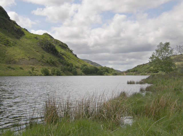 Loch Eilt Just off the A830 "Road to the Isles" from Fort William to Mallaig.